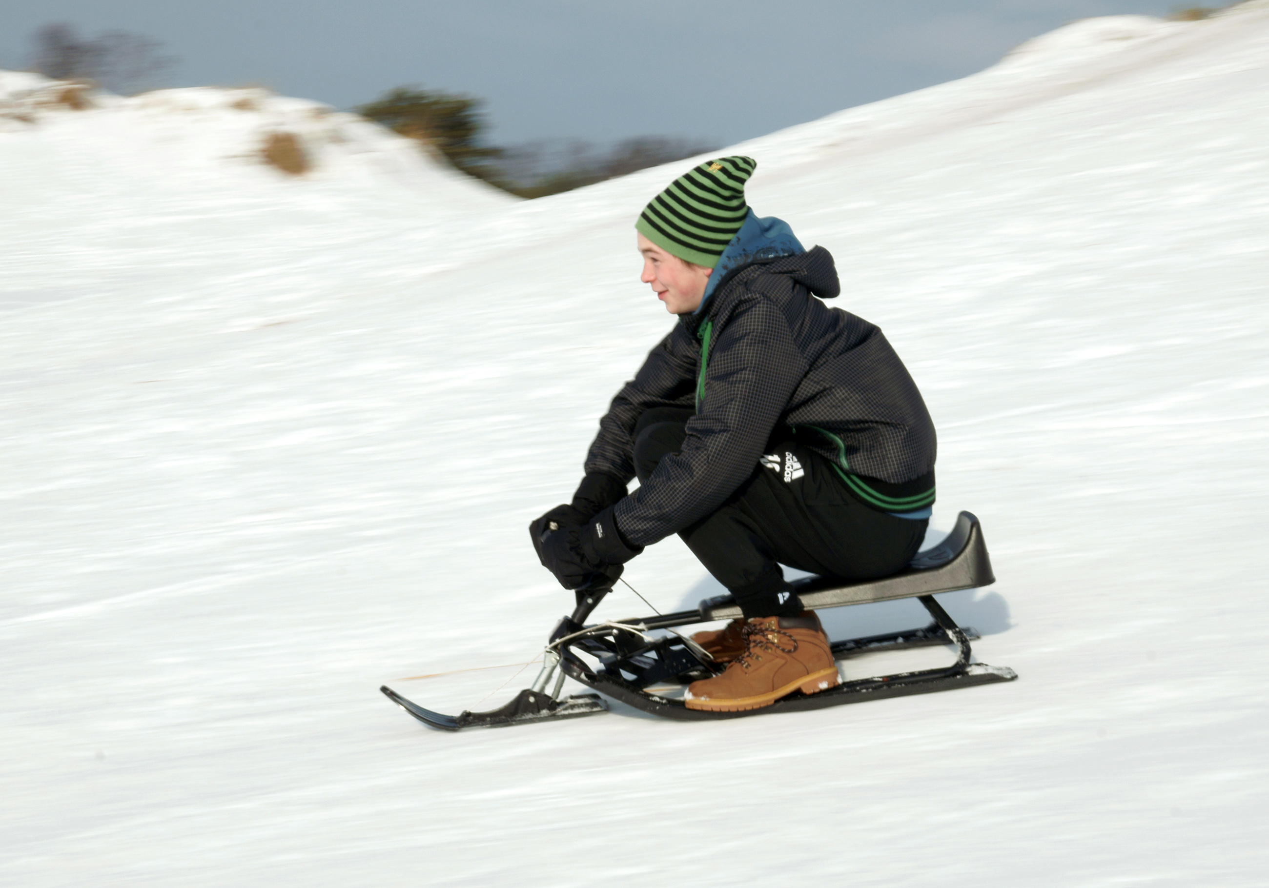 Snowracer (Stiga-sled) in Yyteri.